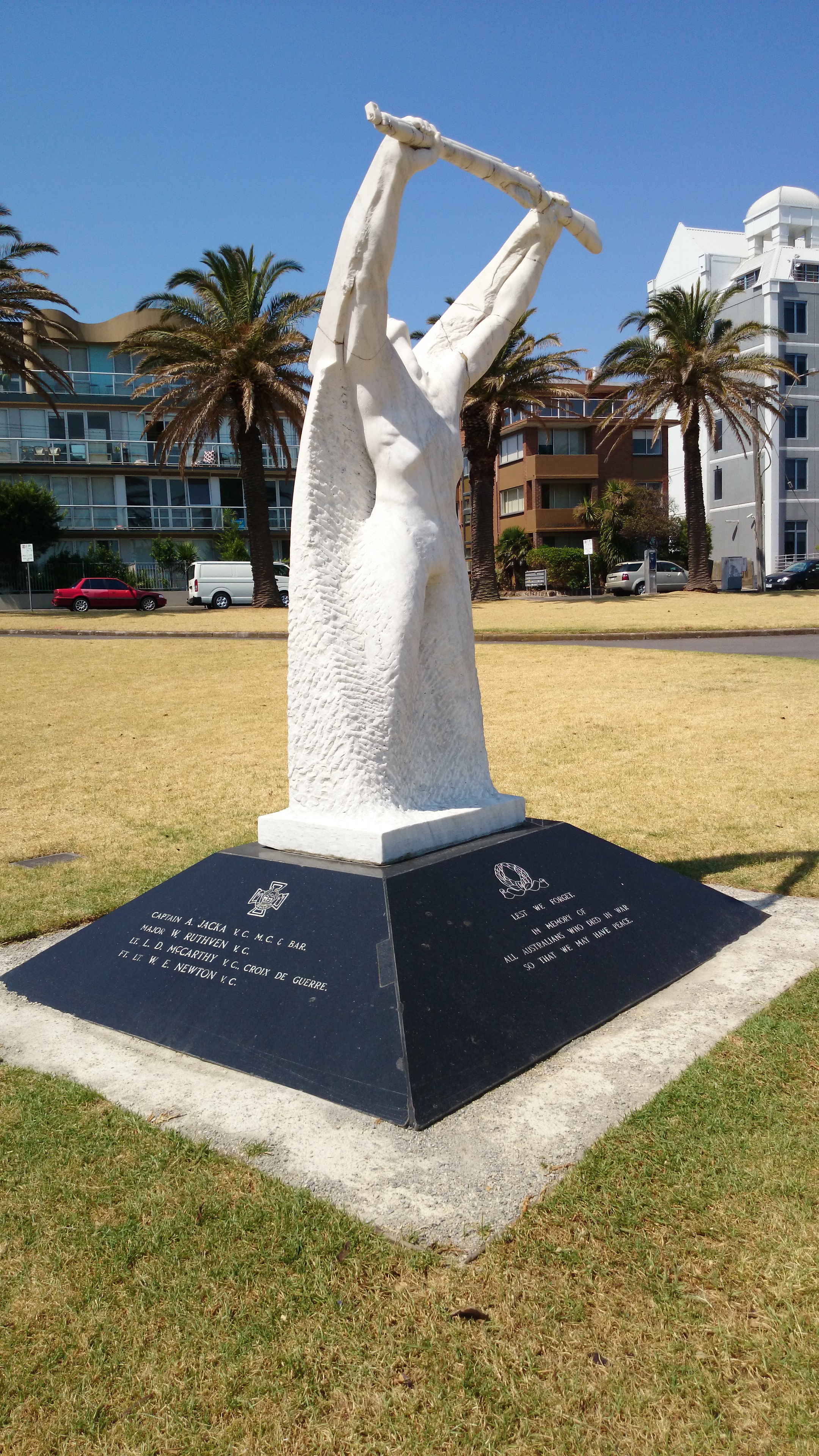 Victoria Cross Monument in Alfred Square Gardens, St Kilda.